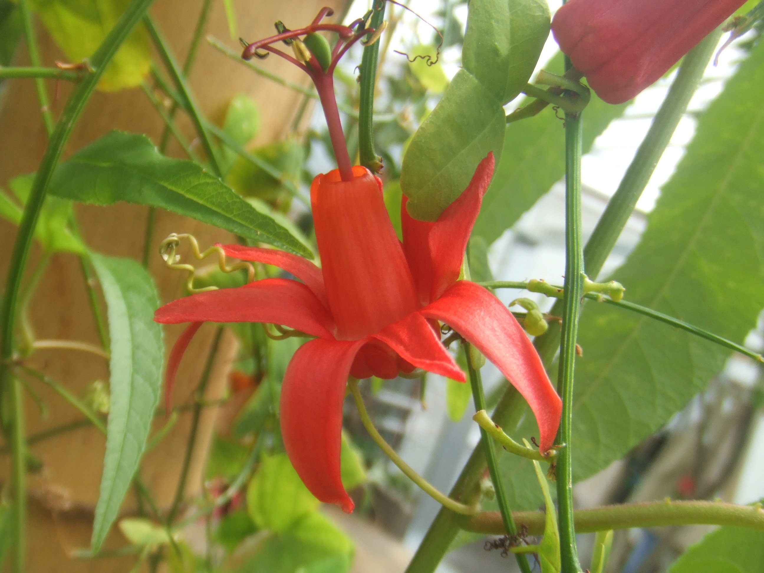 Passiflora murucuja, picture taken at Passiflorahoeve in Harskamp, The Netherlands